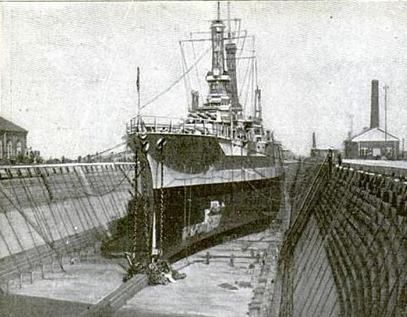 Photograph of the USS Mississippi (BB-41) in drydock in San Francisco, 1920